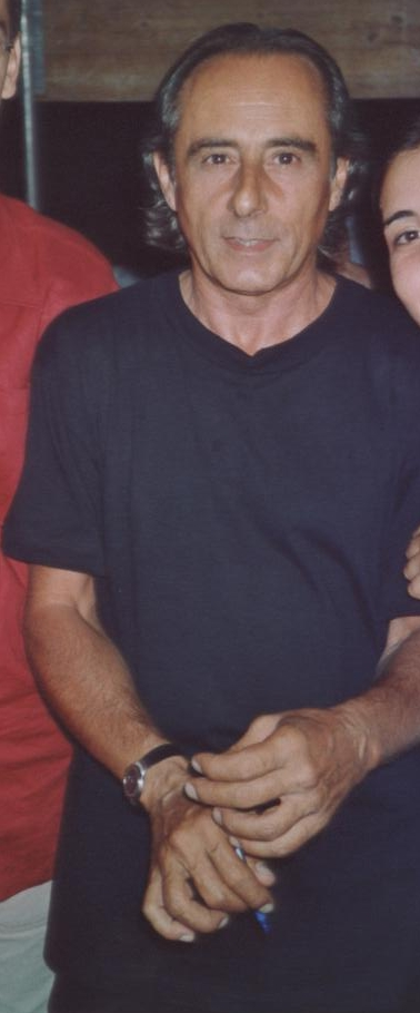 Nino Formicola, alias "Gaspare", after a show in Seccagrande, Ribera(Ag)